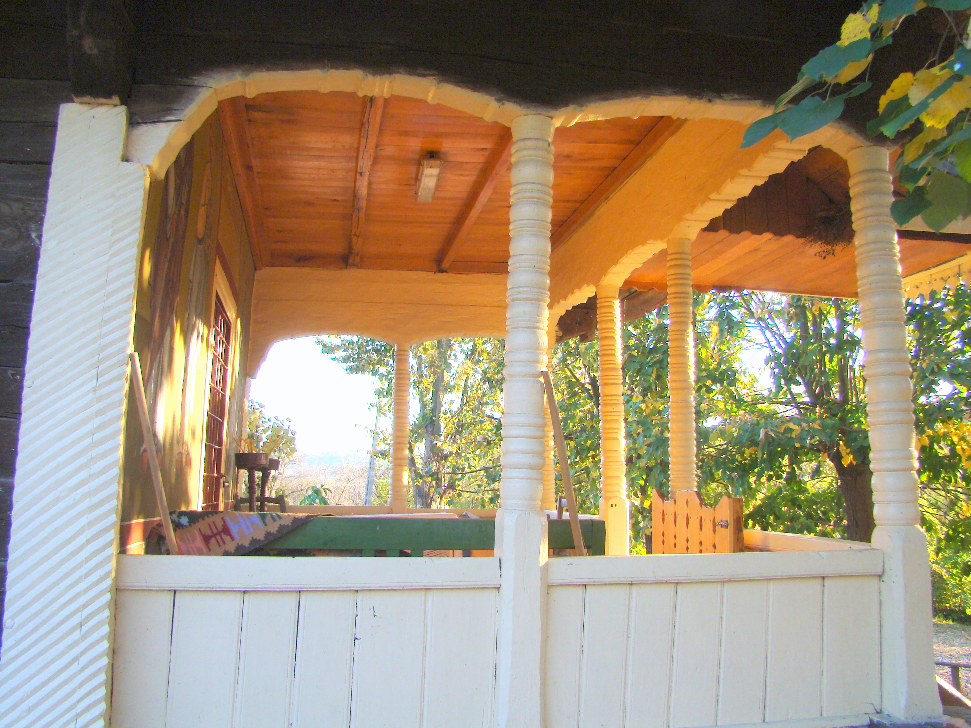 Wooden church in Slivilești, Gorj county, Romania